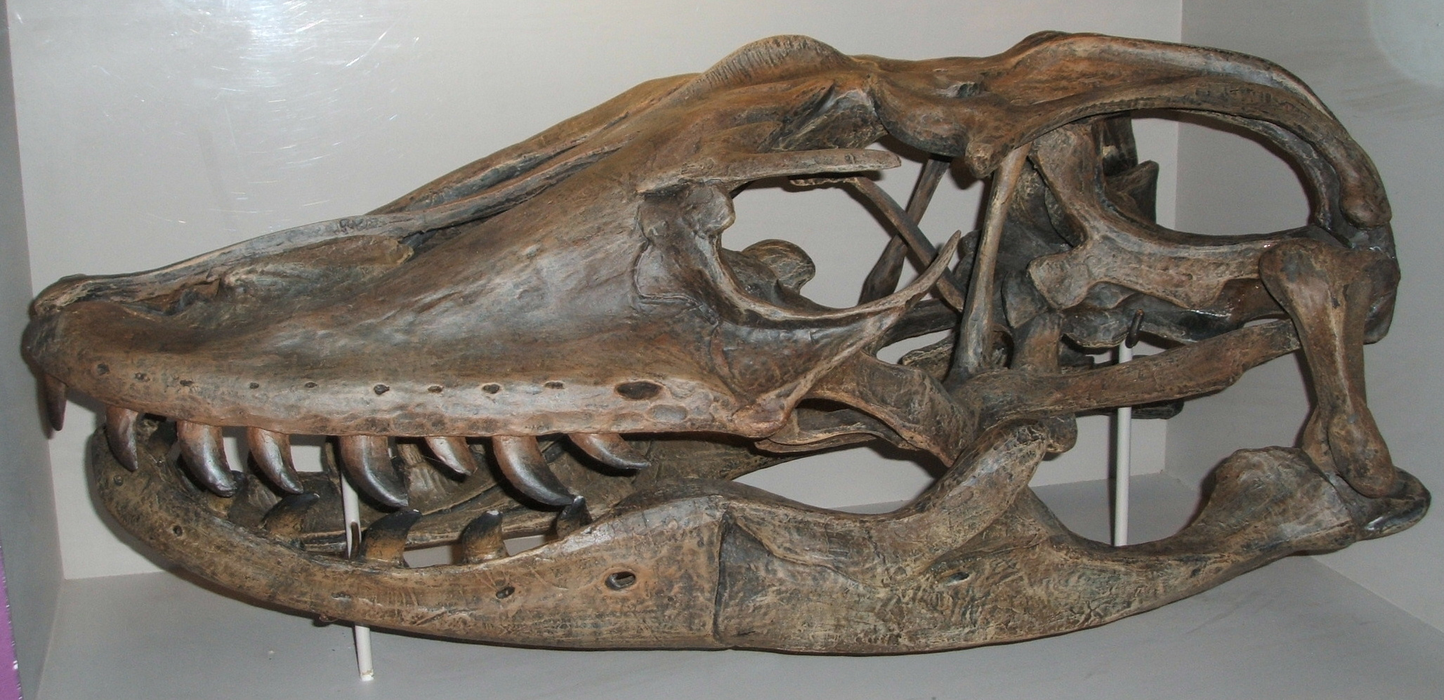 Skull (cast) of Varanus priscus, (syn. Megalania prisca) at the Boston Museum of Science; about 74cm (29in) in length, specimen from Australia